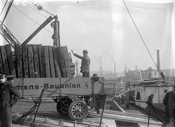 Photograph taken 1925 Format: glass negative Part of: National Library of Ireland Independent Newspapers (Ireland) Collection Reference number: INDH599